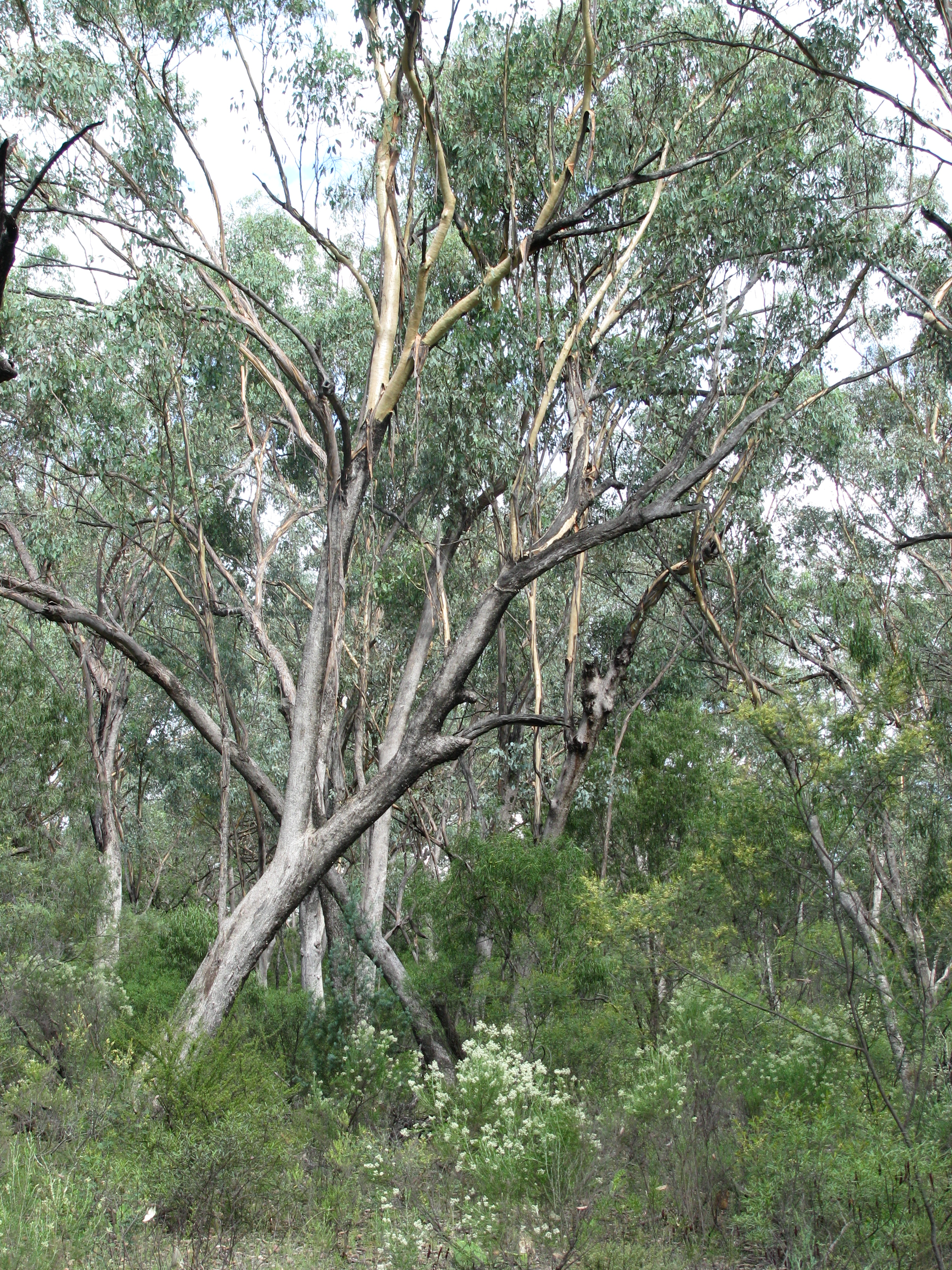 The NSW Office of Environment and Heritage described Leard State Forest as having “irreplaceable, ecologically unique values, including the highest quality remnant patch of grassy woodland on the heavily-cleared Liverpool Plains.” The offset area agreed in the approval of the Maules Creek coal mine does not support the critically endangered woodland the mine will clear, the mapping of the offsets by the proponent has been shown to be incorrect, and there are no areas available in the landscape that could replace or offset the “irreplaceable” and “unique” forest that will be cleared under the approval.